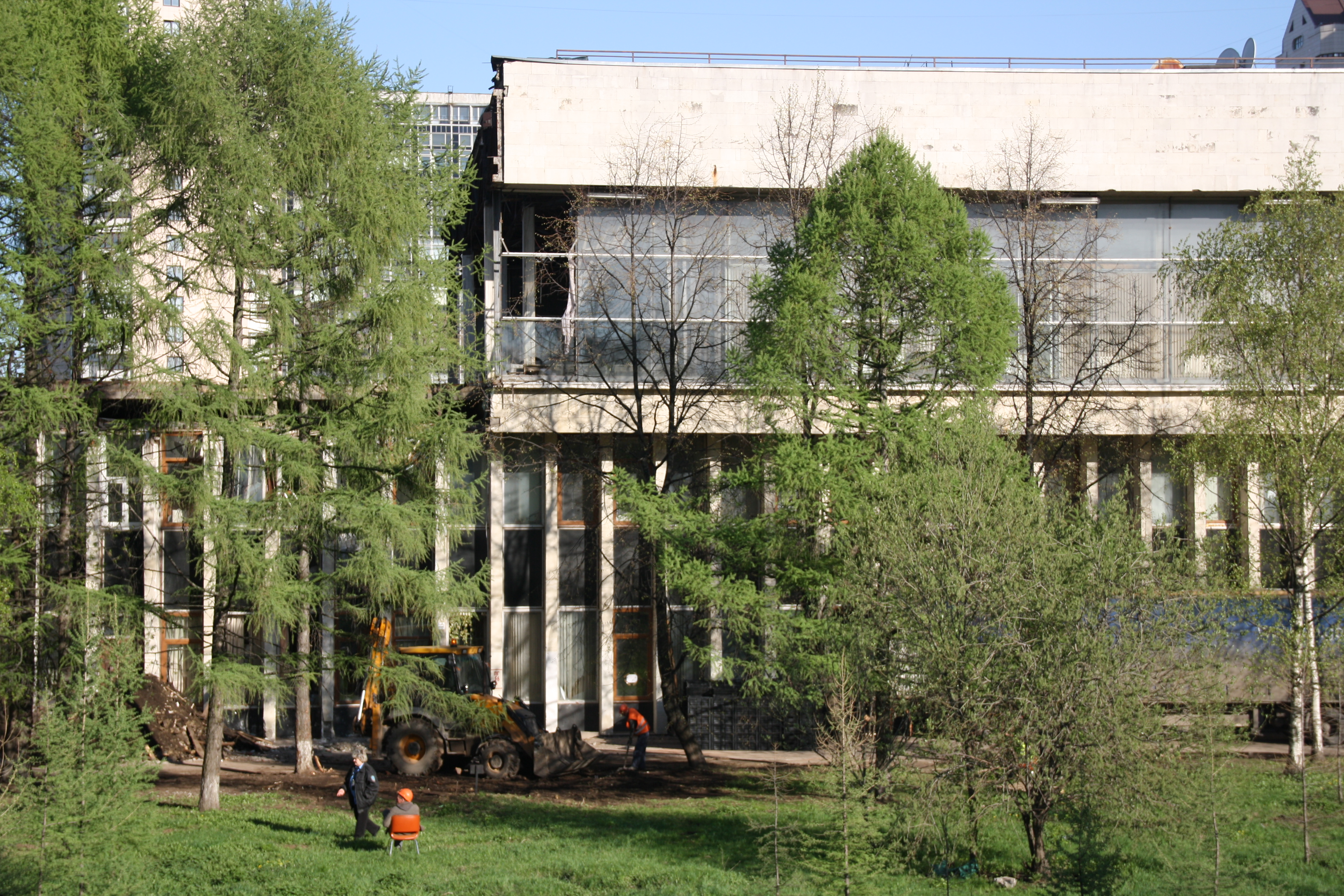 Восстановительные работы